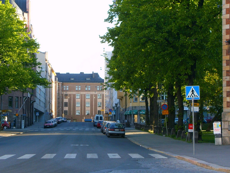 Fleminginkatu in Kallio, Helsinki, early on a sunny morning of spring 2008